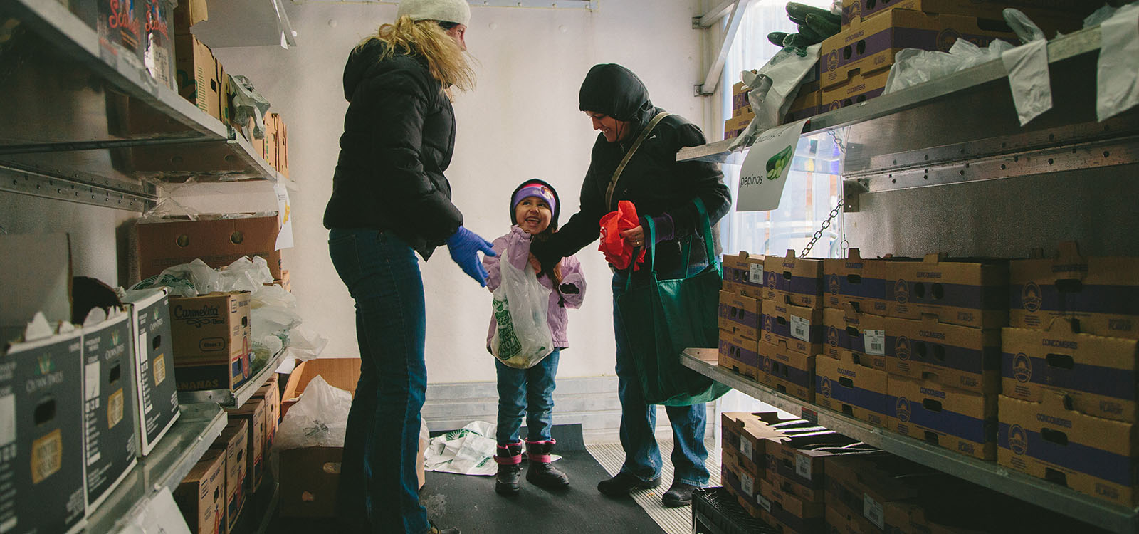 This is a picture of one of the Greater Chicago Food Depository's mobile programs called the fresh truck. It delivers fresh produce to clinics all over cook county.